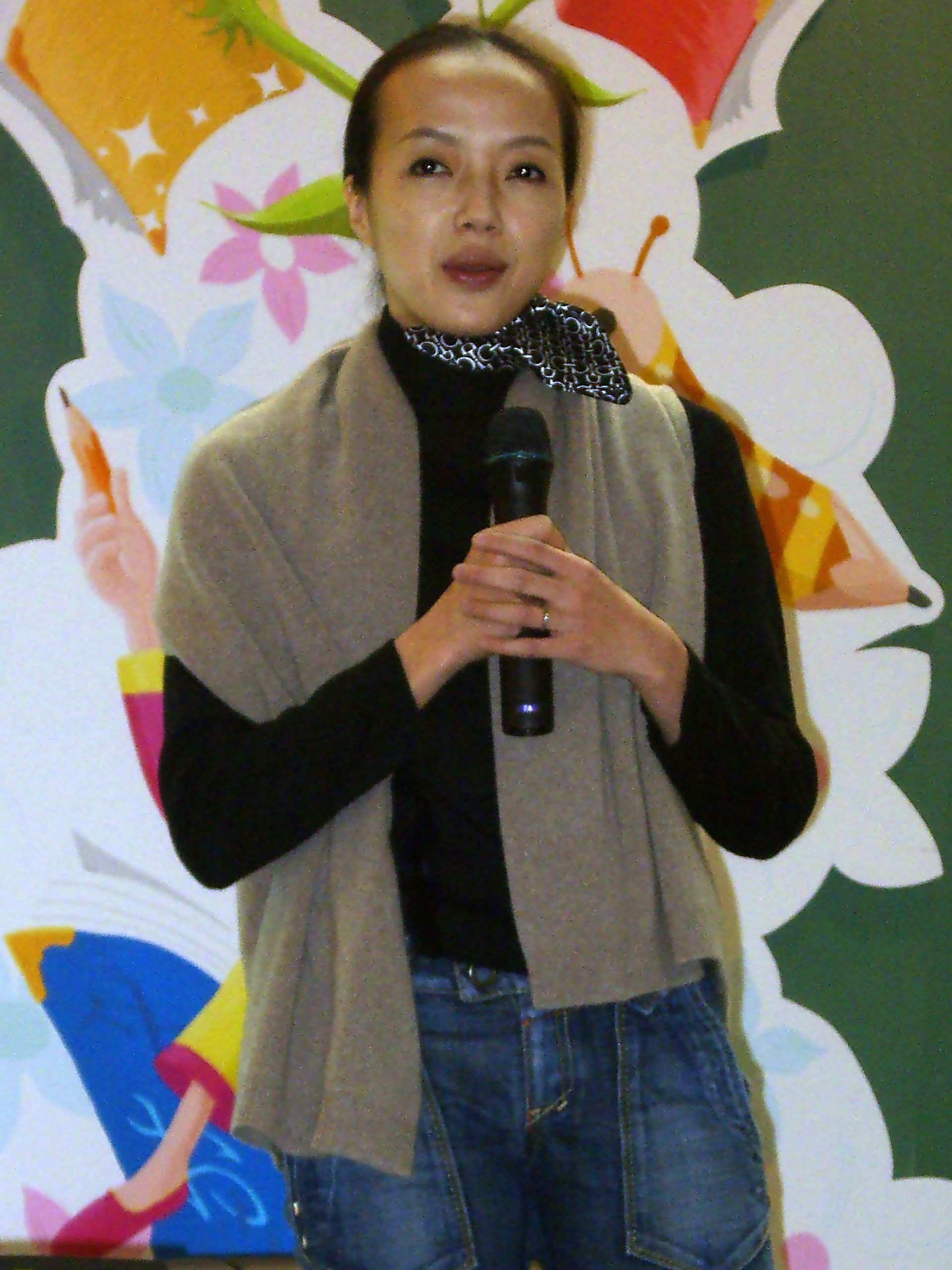 2008 Taipei International Book Exhibition - Theme Square: Fang-yi Hsu, a woman dancer from Taiwan.